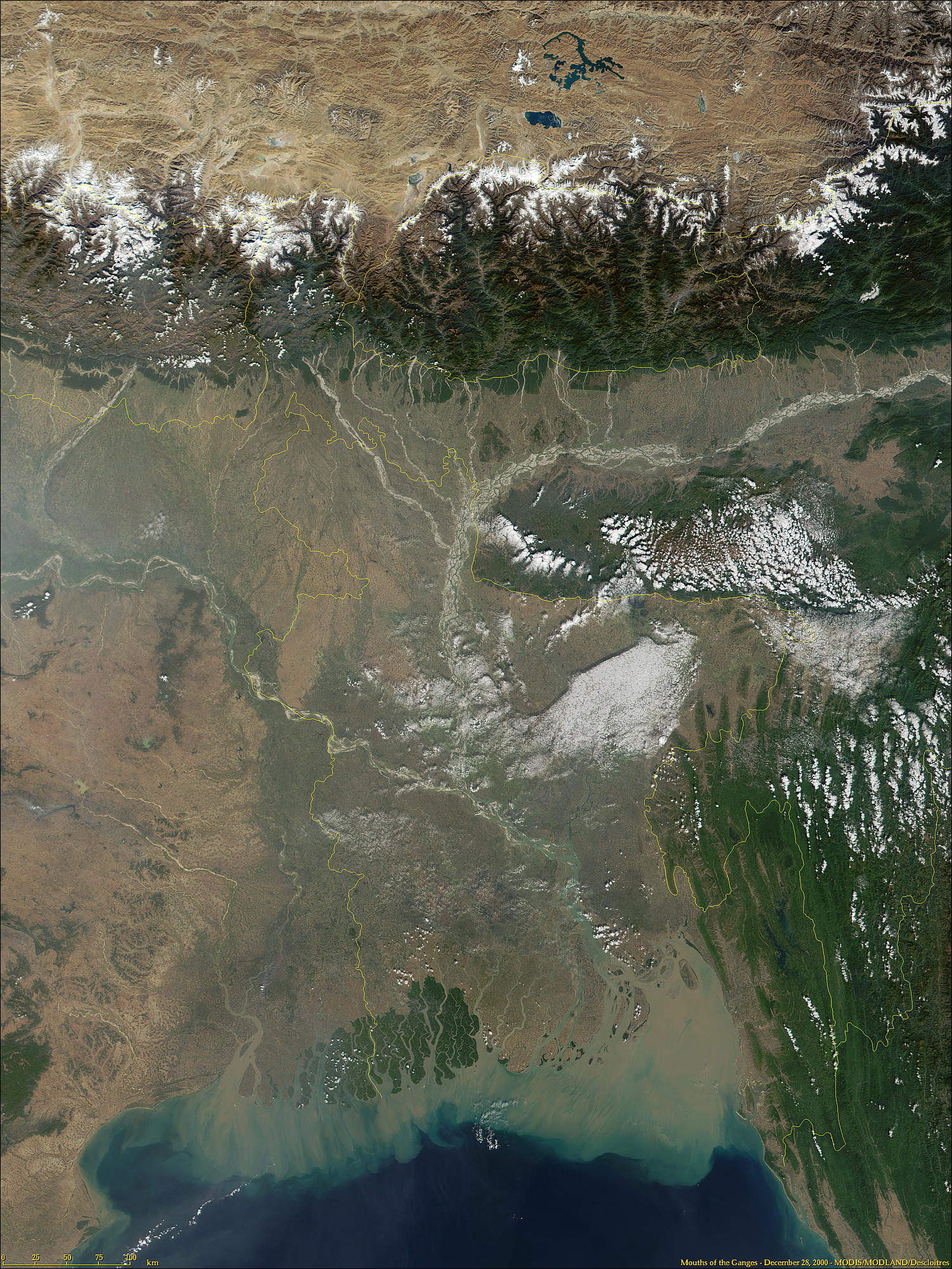 Combined delta of the Ganges and Brahmaputra Rivers, true-color MODIS image.